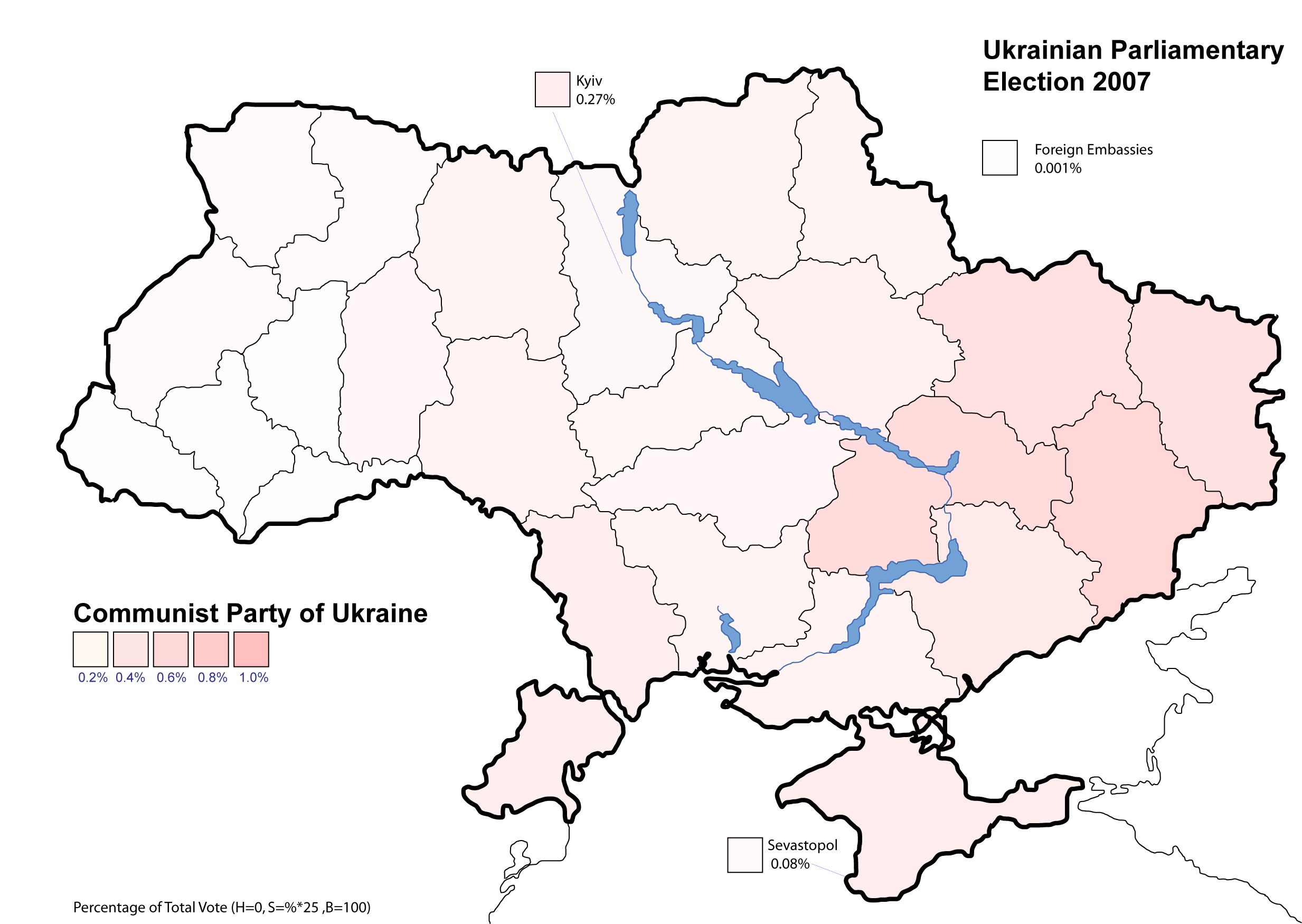 Ukrainian Parliamentary Election 2007 (CPU) Percentage of total national vote (minimal text)